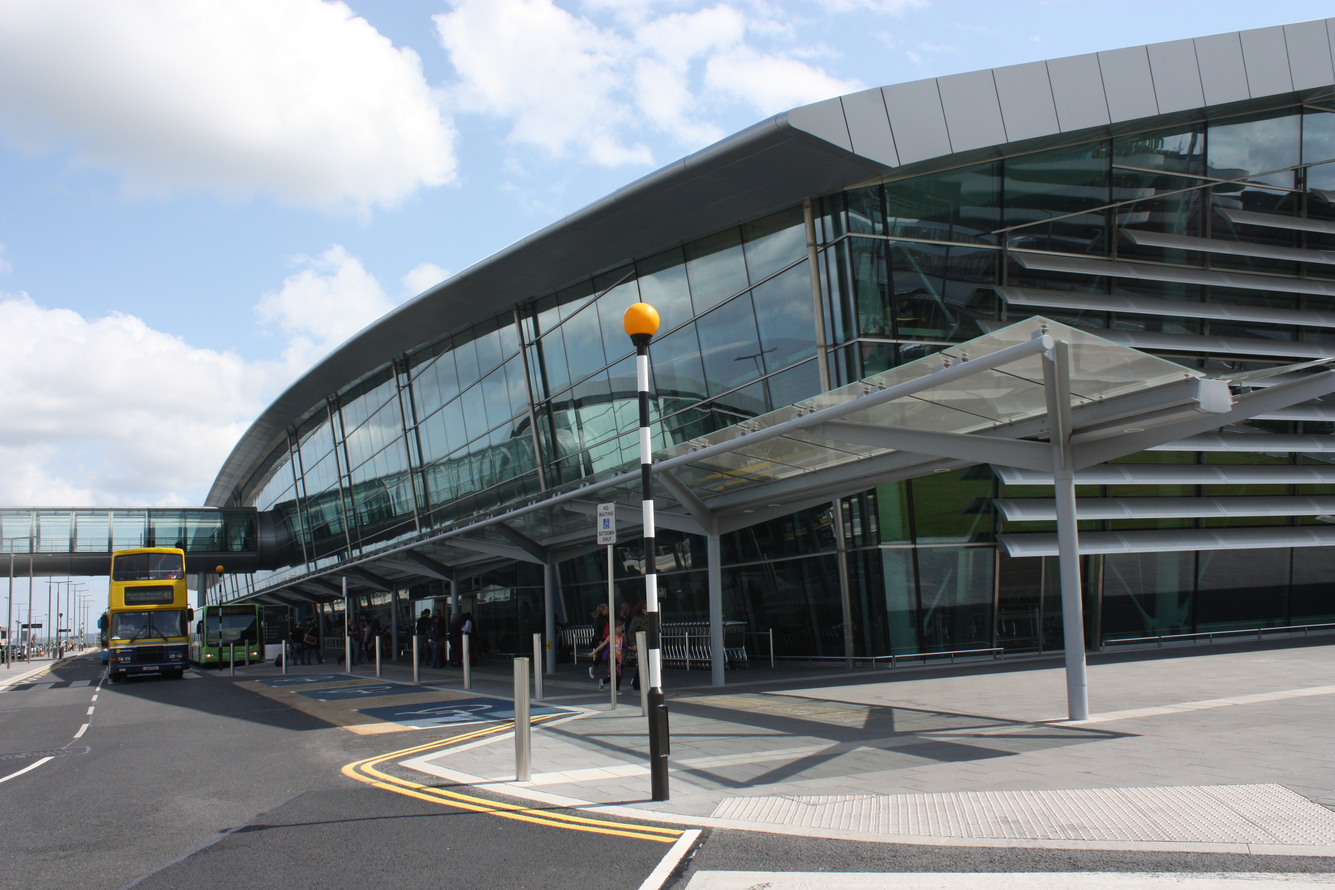 Terminal 2, Dublin Airport, Dublin, Ireland, May 2011